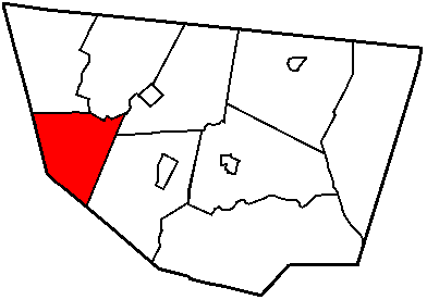 Map of Sullivan County with township and municipal bondaries is taken from US Census website [1] and modified by User:Ruhrfisch in August 2005. My modifications licensed under the GNU Free Documentation License. Source: US Census website [2], modified by User:Ruhrfisch